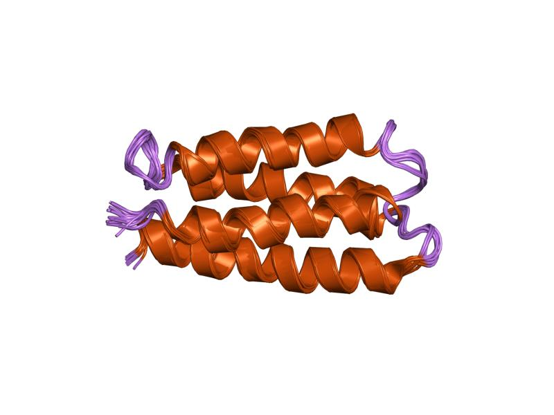 Cartoon representation of the molecular structure of protein registered with 1p68 code.